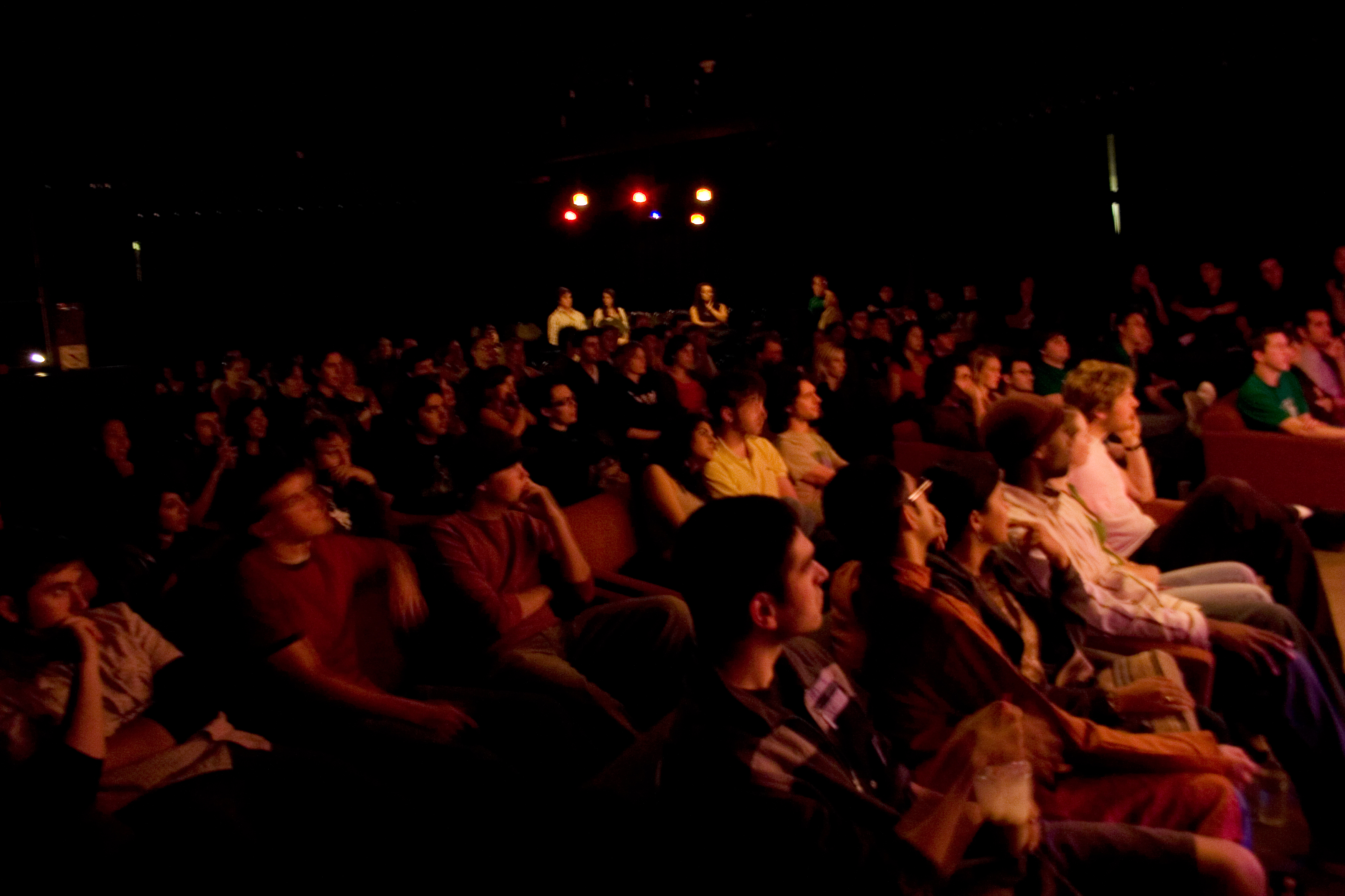 A Second Nature audience at the Ground Zero Performance Cafe